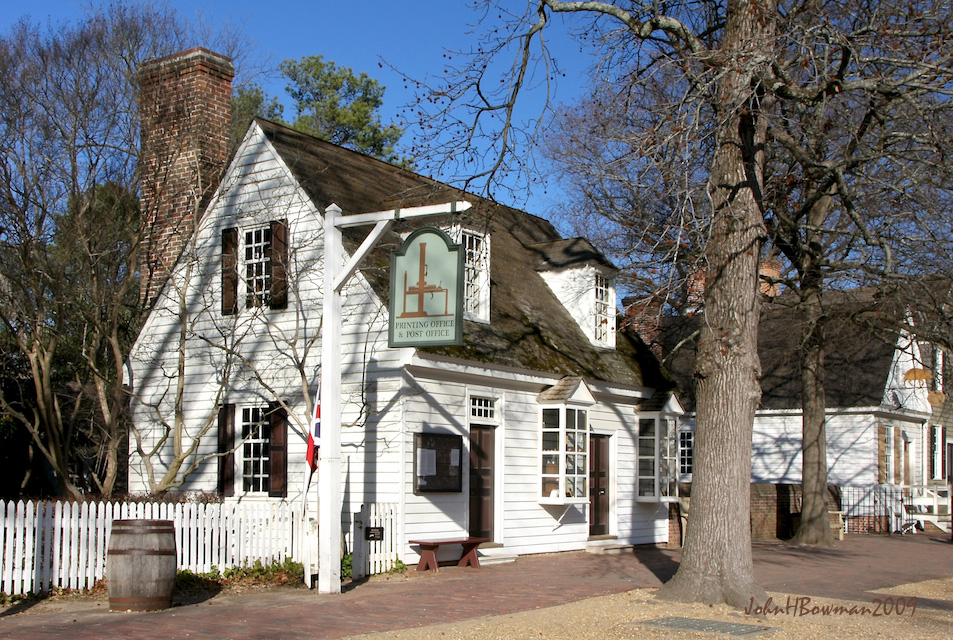 Print Shop, Post Office, and Book Bindery, Colonial Williamsburg, Virginia. This structure, also a reconstruction, is immediately to the west of the trio of shops shown in an earlier photo (M. Dubois grocery is at the right here). The lot behind this building drops significantly, and a lower level of the building is not visible here. Starting in 1736, in this location William Parks published the Virginia Gazette, the first newspaper in Virginia, and he became the "public printer" for the General Assembly; in addition, books and related items were sold here, reportedly displayed in the box-bay windows at the front. Between 1750 and 1780, other printers carried on the business Parks had commenced, but that apparently ended when the seat of government of the new state was relocated to Richmond in 1780. [Official Guide to Colonial Williamsburg, 3rd edition (Williamsburg: Colonial Williamsburg Foundation, 2007), p. 54.]